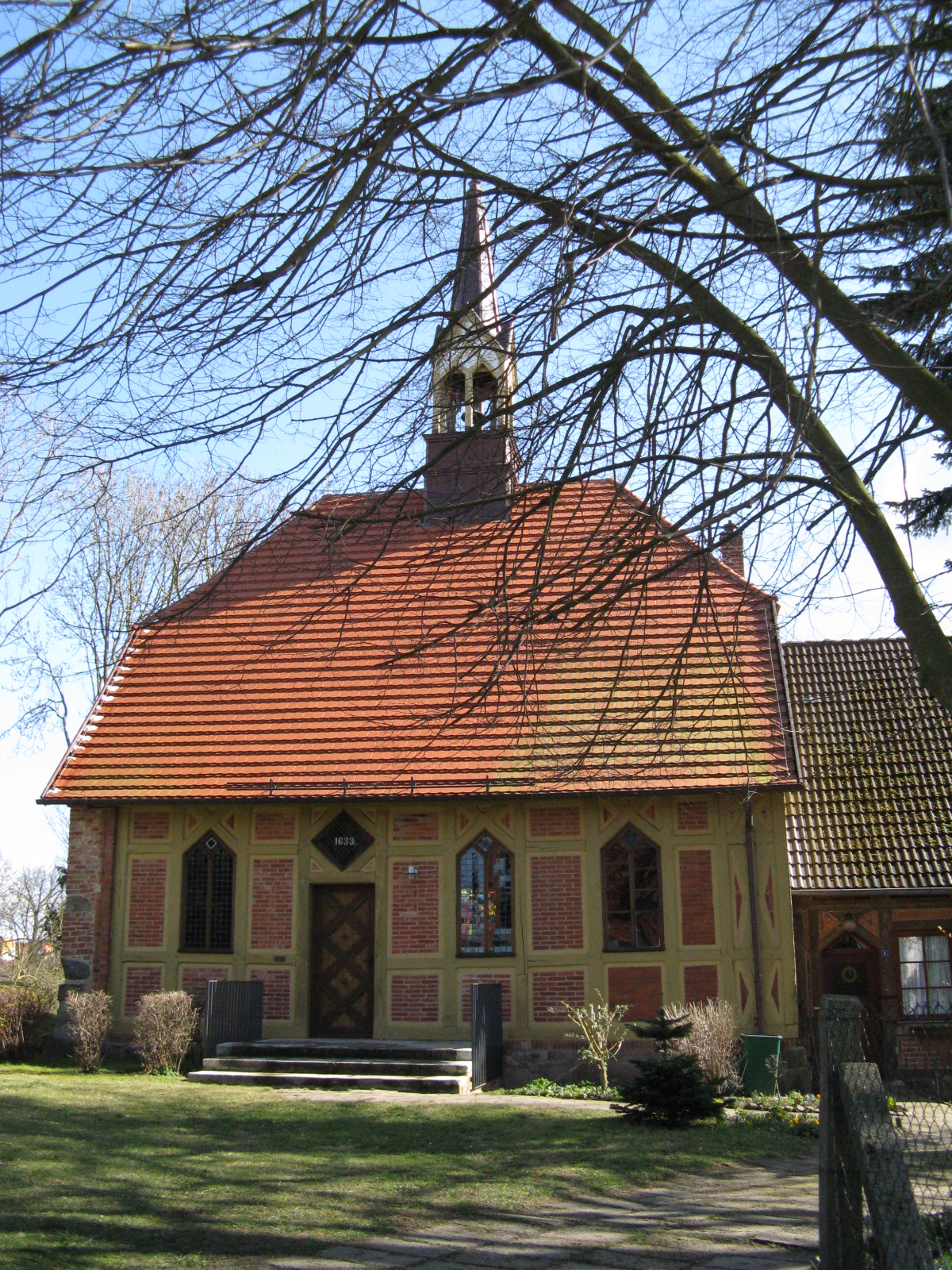 Church in Lübz, Germany